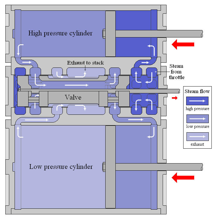 Diagram of steam flow in the cylinders and valve chamber of a Vauclain compound engine.